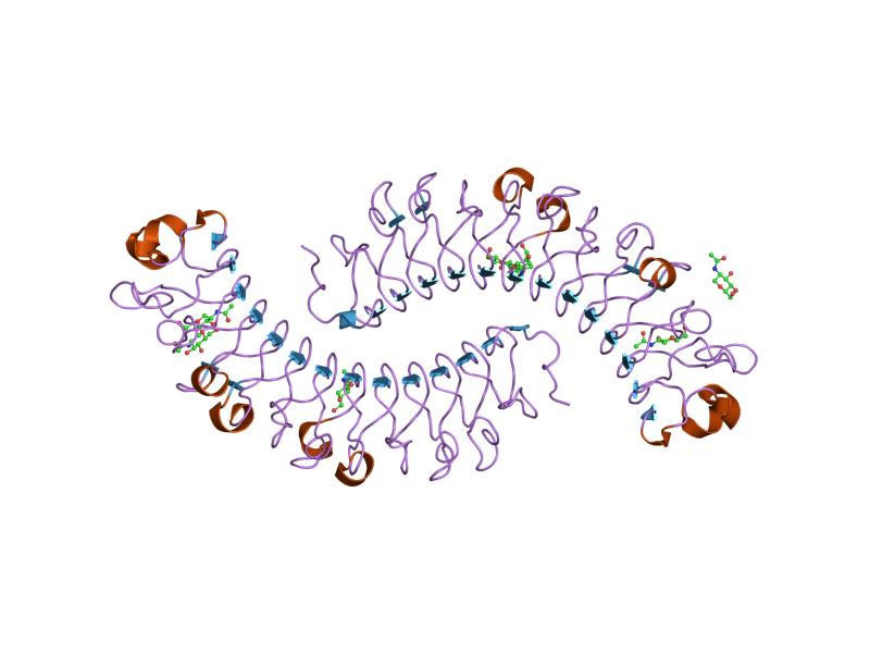 Cartoon representation of the molecular structure of protein registered with 1xec code.